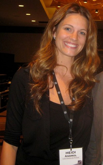 Photos of Heidi Androl star of Apprentice and Philip Nelson Licensed under a creative commons share-alike license. Use freely, but give credit Philip Nelson, Live Streaming Expert and link to